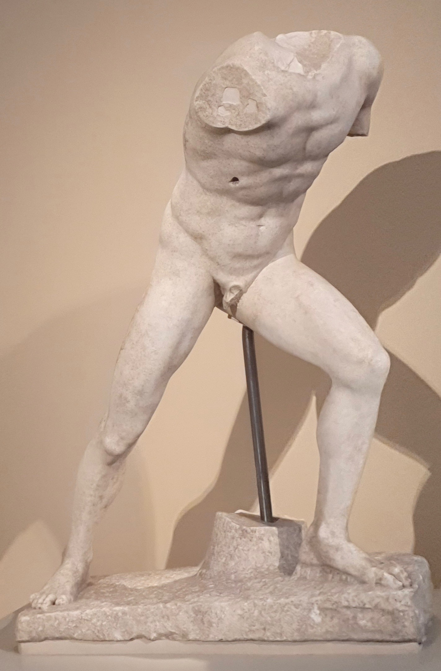 Wounded Niobid at Altes Museum